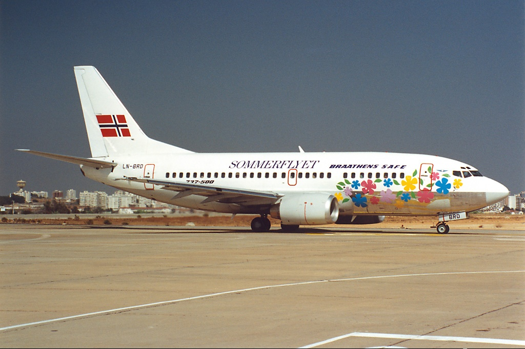 Braathens SAFE Boeing 737-505 LN-BRD at Faro Airport